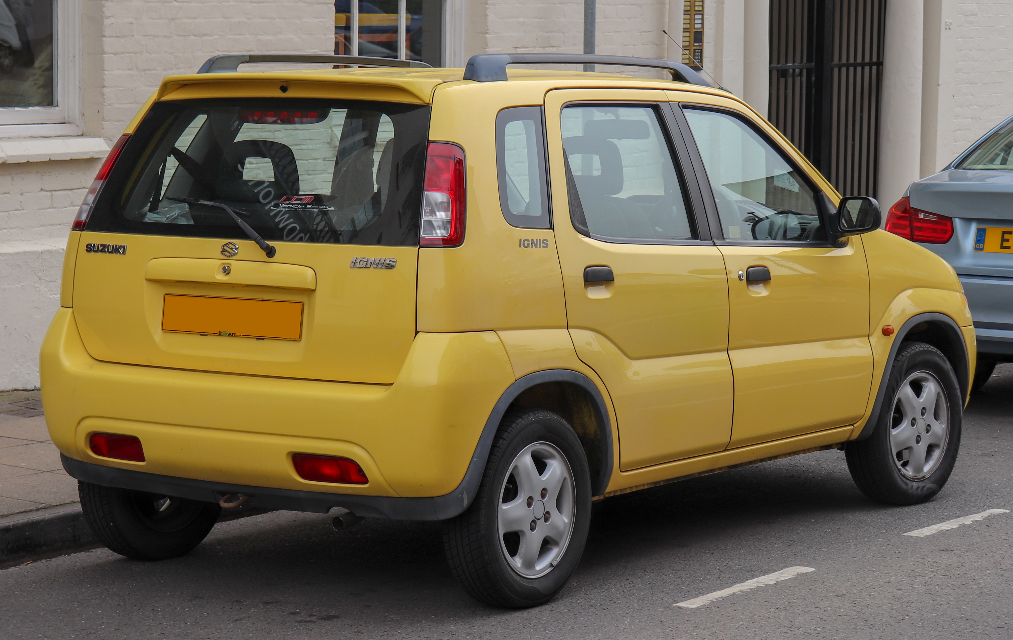 2002 Suzuki Ignis GL 1.3 Rear Taken in Warwick